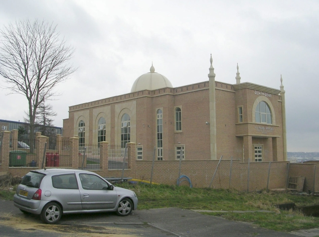 Al-Mahdi Mosque, Bradford - viewed from Arnford Close